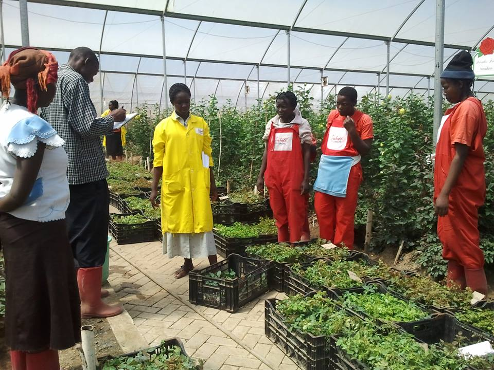 Planning for Rose saplings planting in Greenhouse This is an image of "African people at work" from Kenya